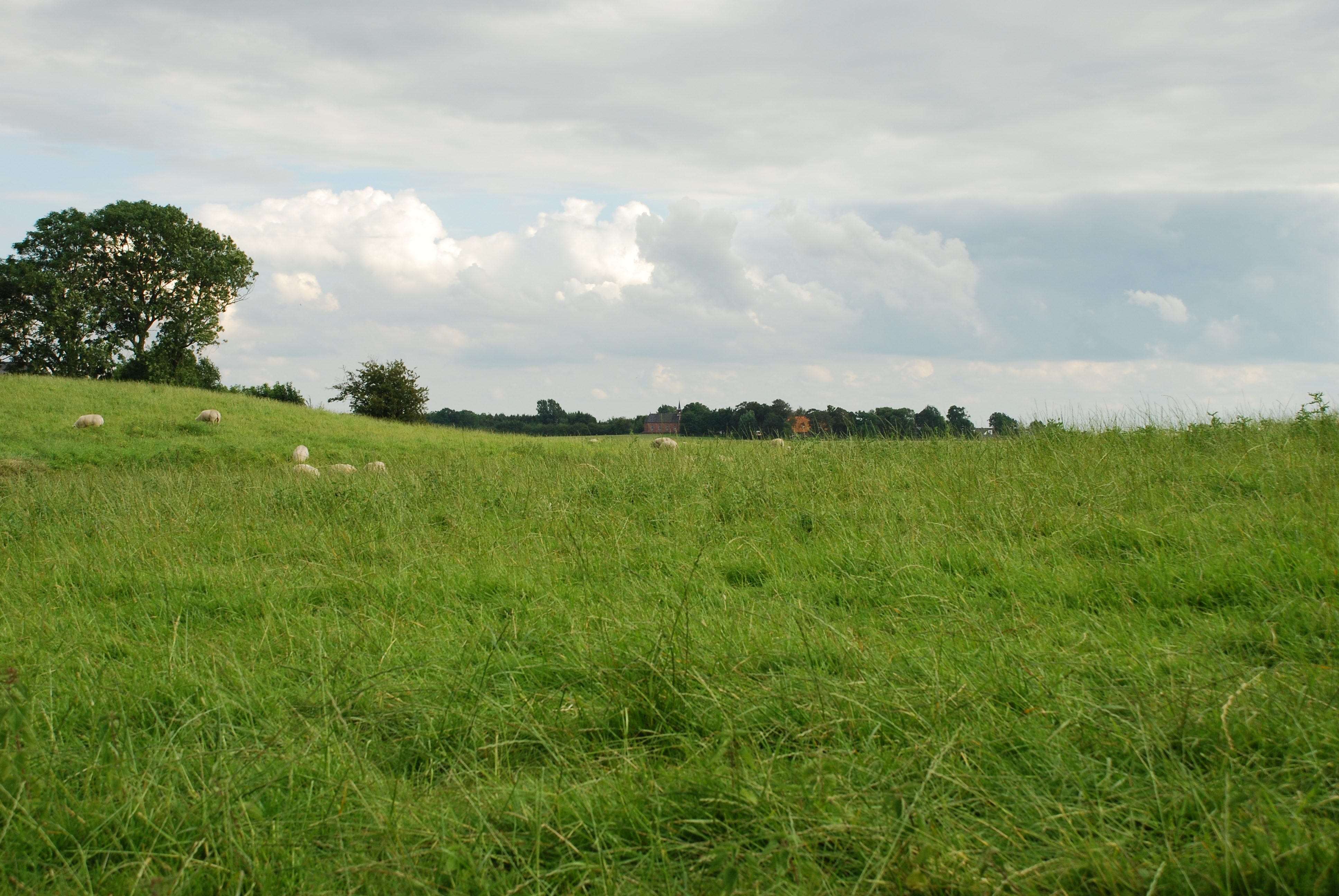 The artificial dwelling hills of Helwerd, with Rottum in the distance